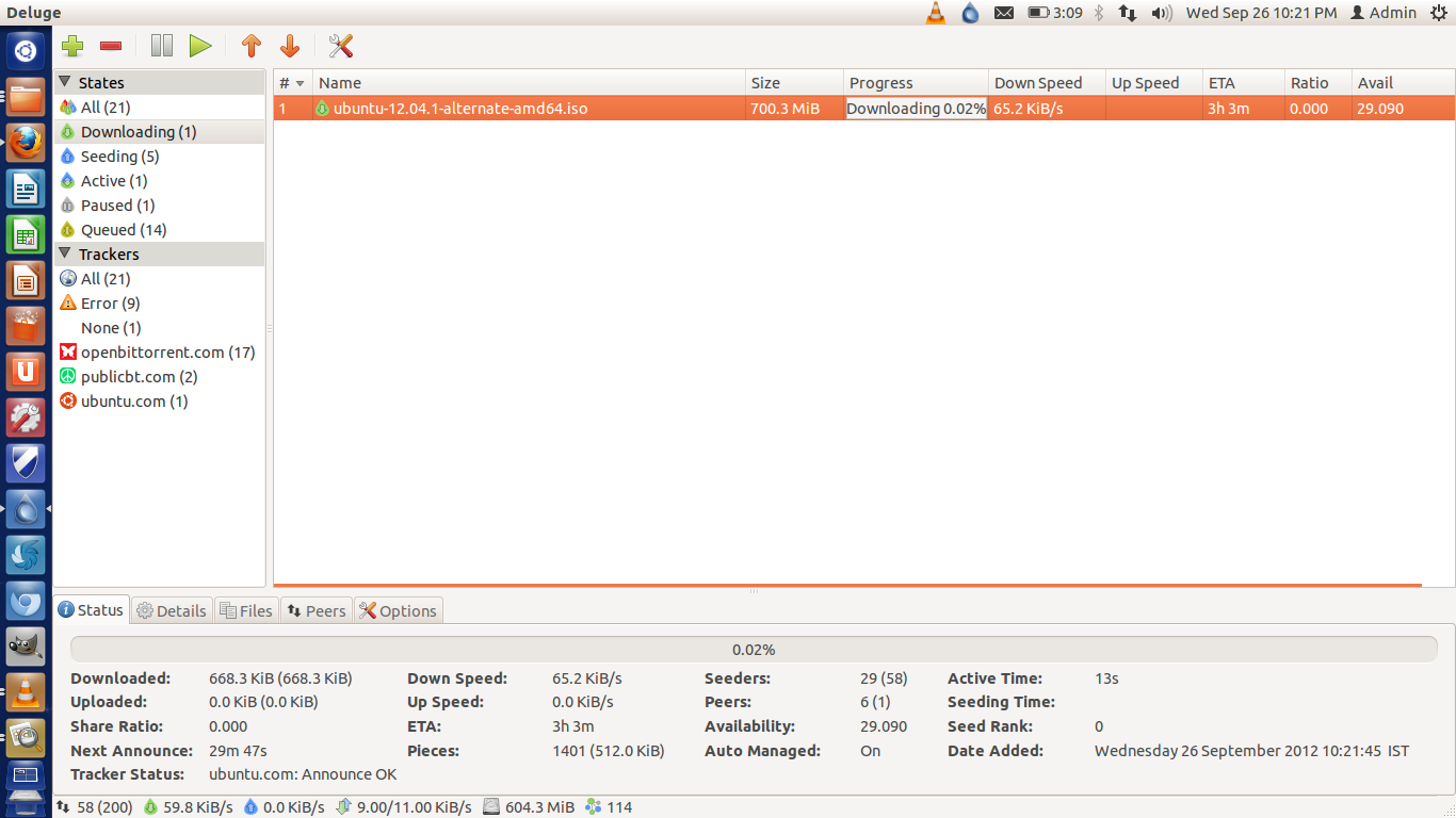 Screenshot of Deluge bit-torrent client on Ubuntu Linux 12.04 LTS